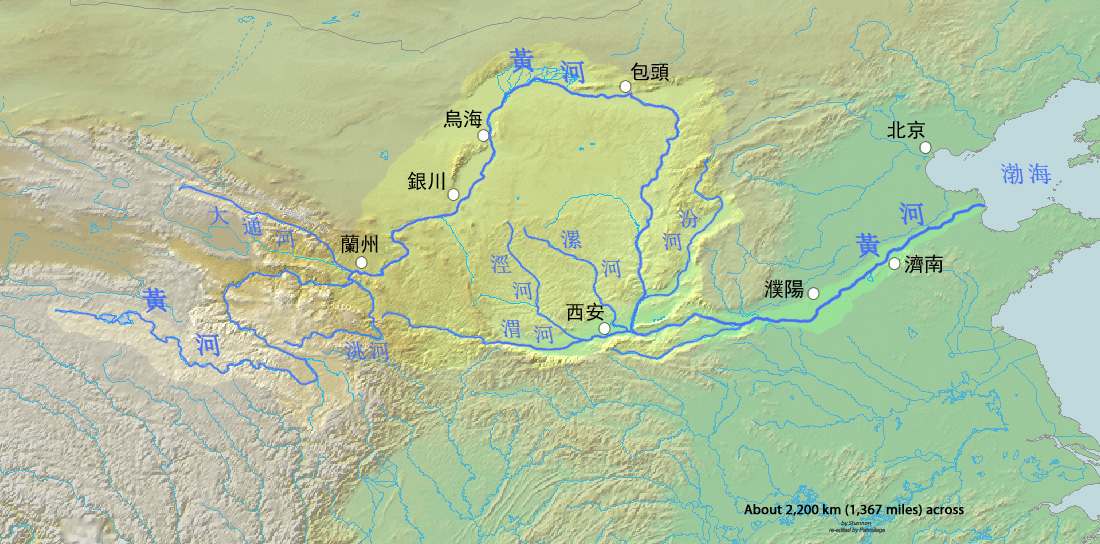 Map of the Yellow River, whose watershed covers most of northern China and drains to the Bohai Sea